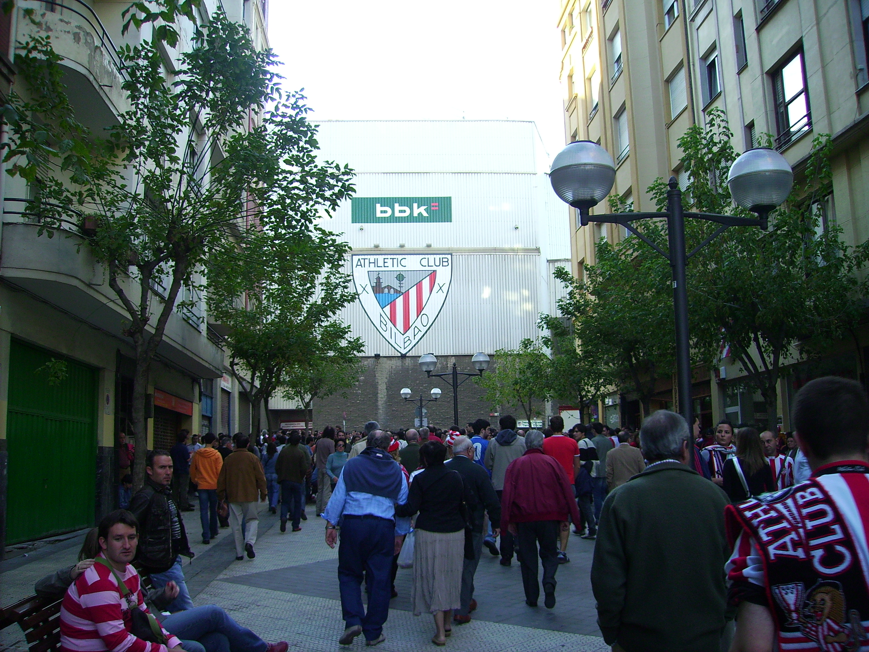 Athletic Club Bilbao's supporters going to San Mames Stadium before a match.